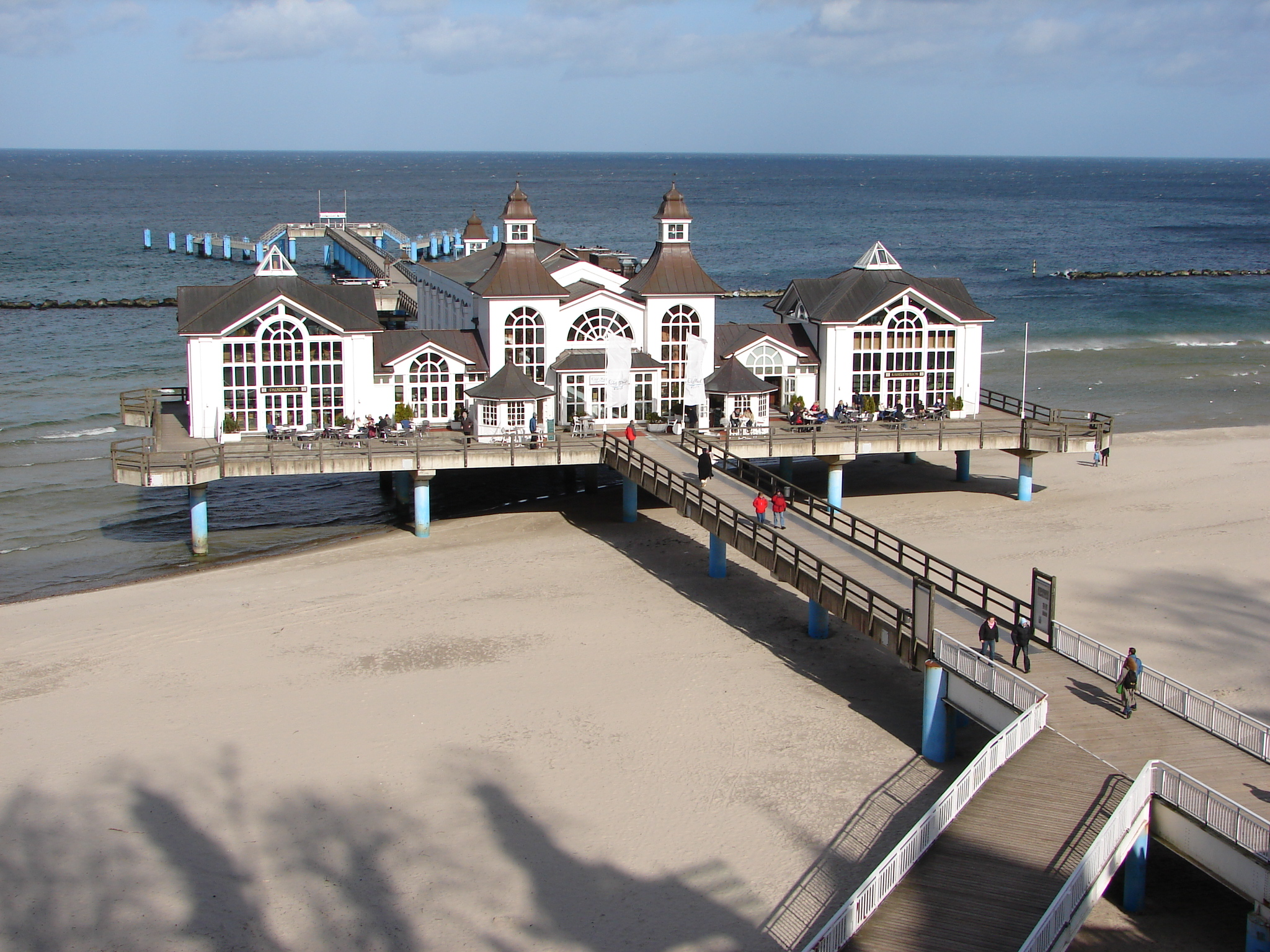 Sellin pier (Rügen)